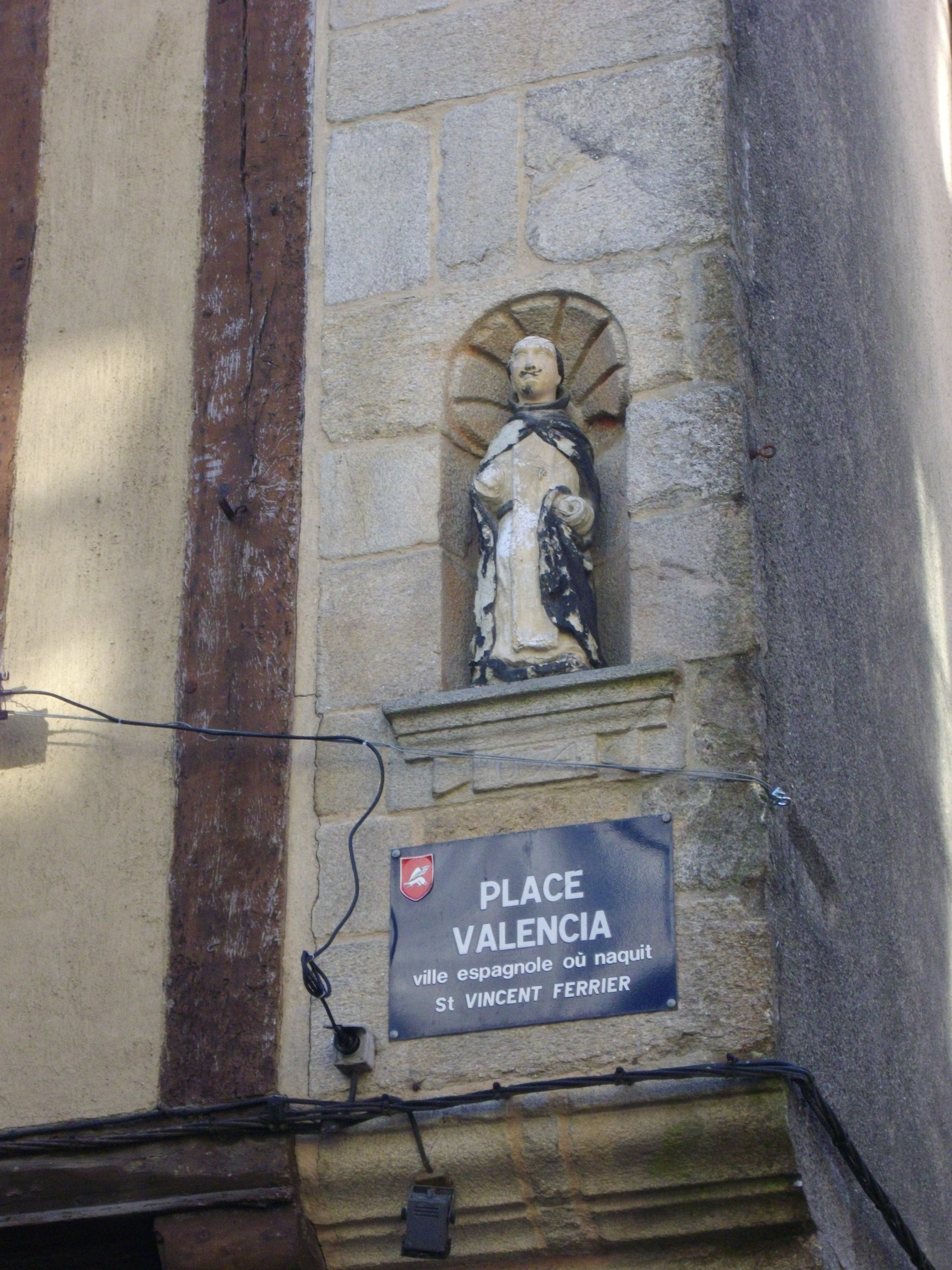 Statue of Saint Vincent Ferrer on the house at 17, Valencia square in Vannes (Morbihan, France)